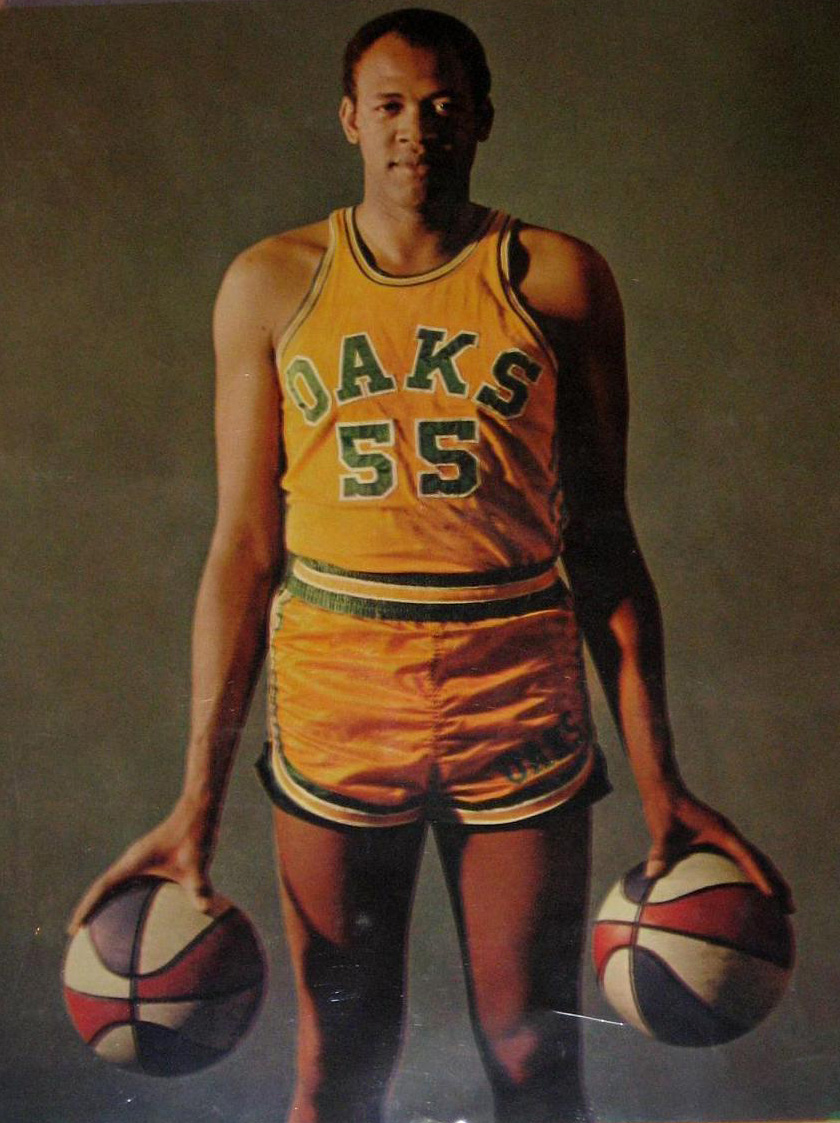 Professional basketball player Jim Hadnot, a center who played one season in the American Basketball Association as a member of the Oakland Oaks.